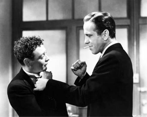 Peter Lorre and Humphrey Bogart in American crime noir film The Maltese Falcon (1941). See also film still. No copyright notice.